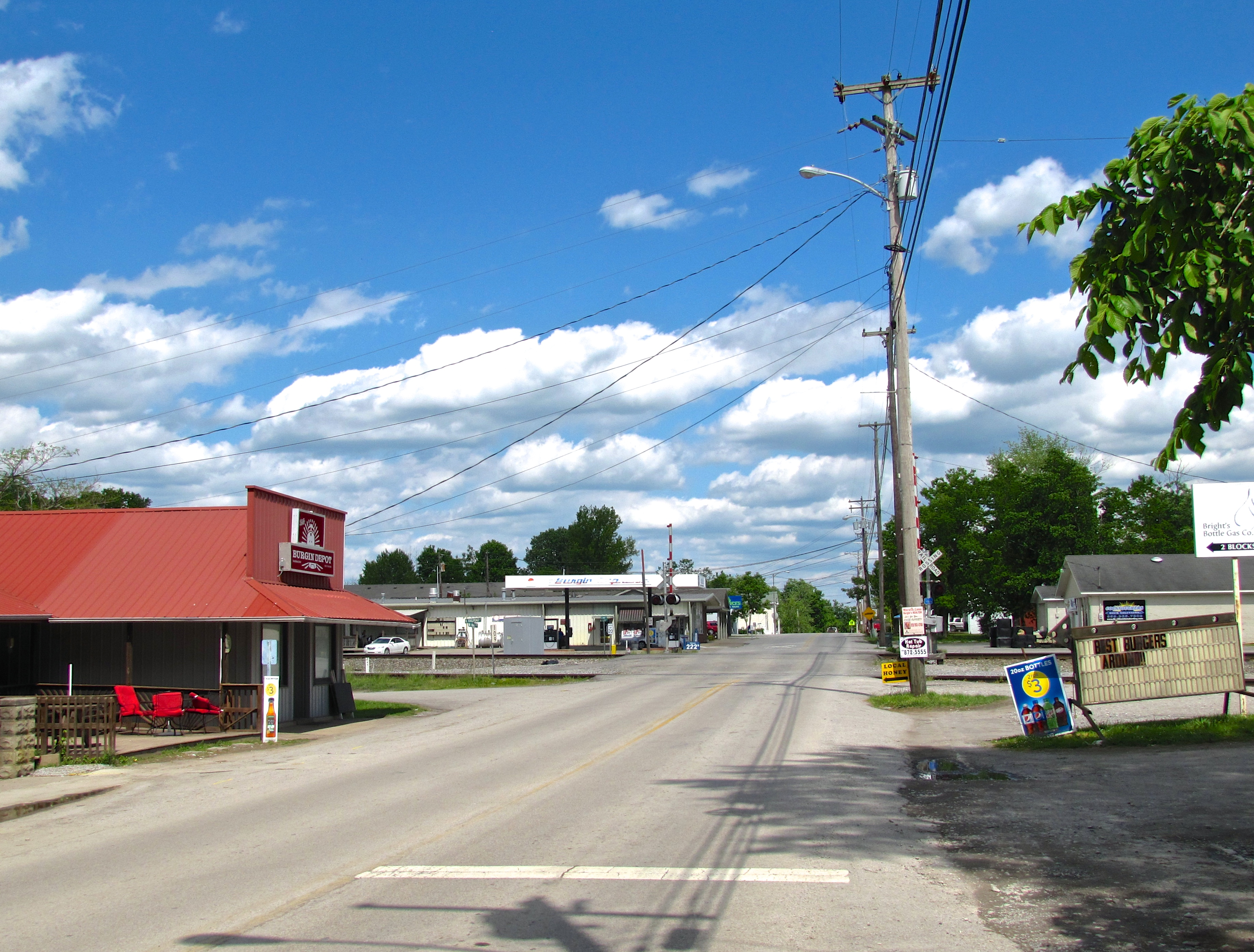 Buildings along Kentucky Route 152 (Main Street) in Burgin, Kentucky, United States.